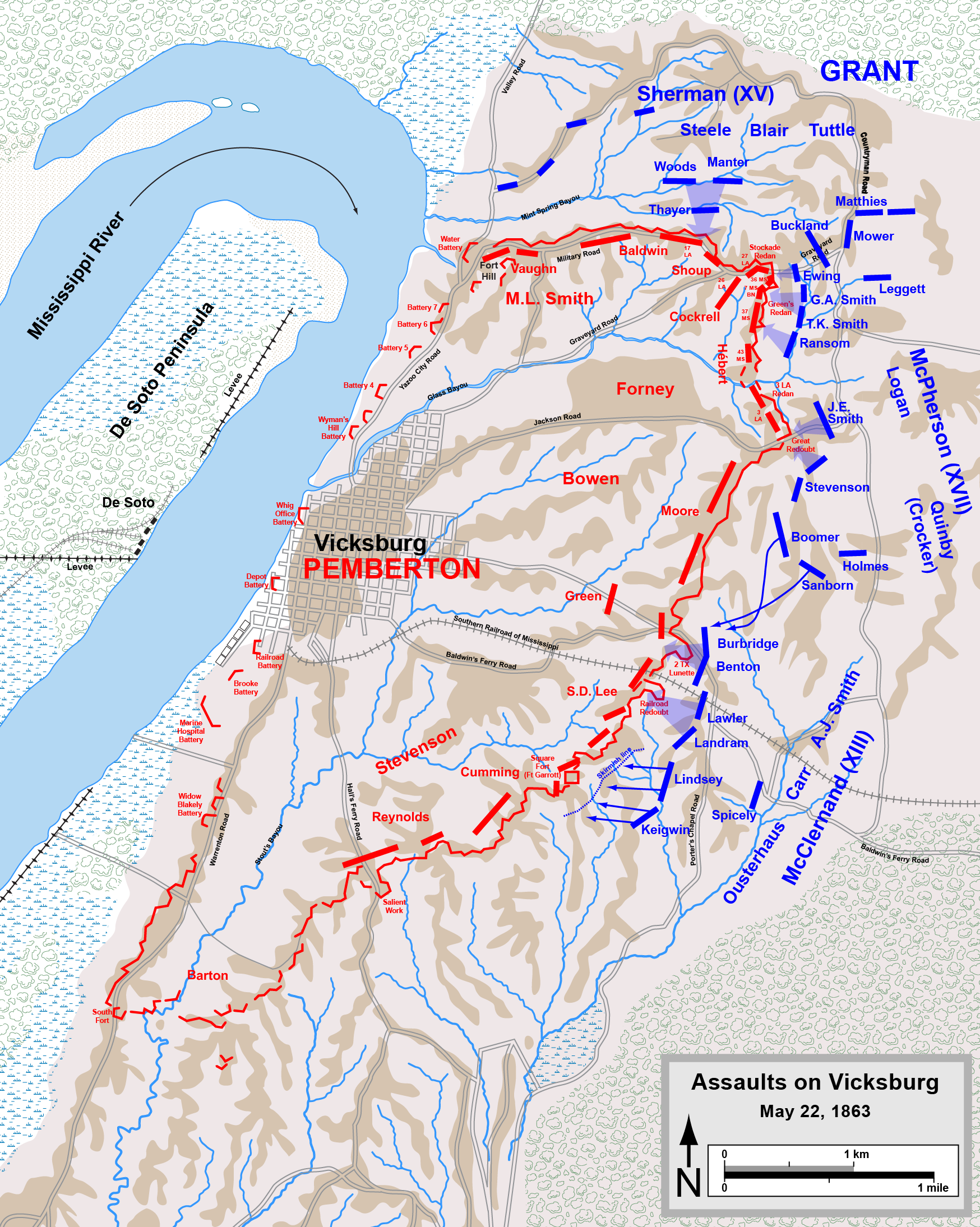 Map of the Siege of Vicksburg.